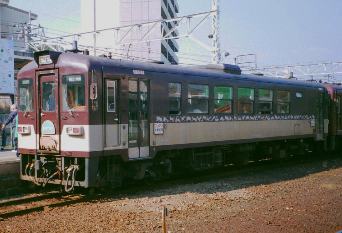 Watarase Keikoku Railway Watarase Keikoku Line Type Wa89-311 Train(Mie-prefecture,Japan).